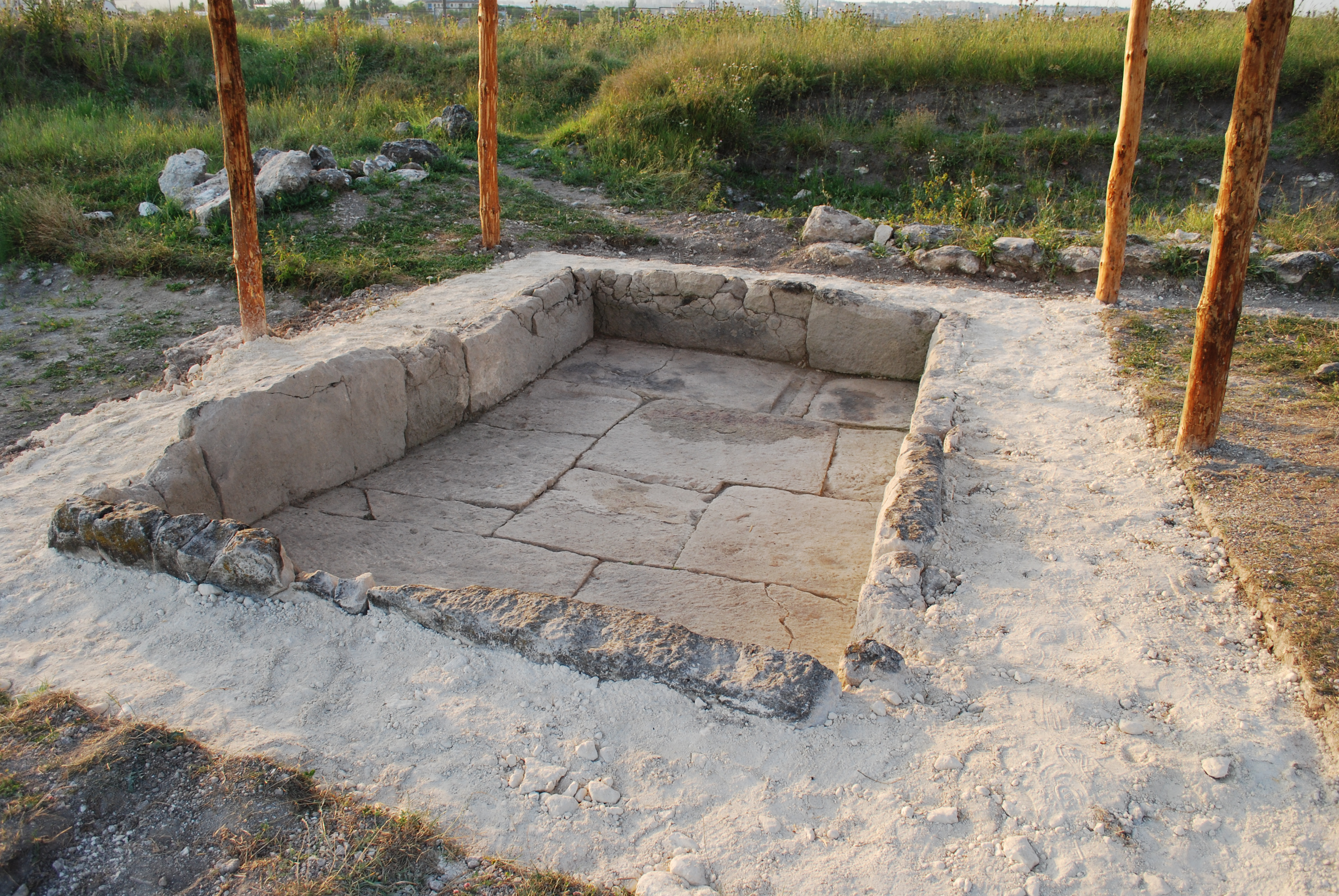 The ritual pool of Scithian Neapolis.